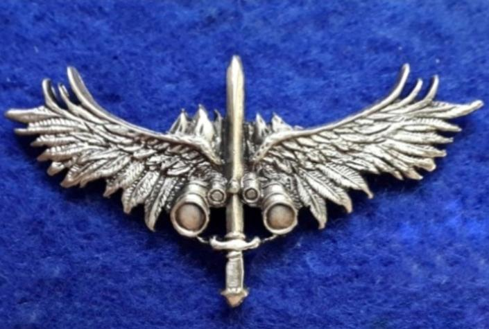 pin label of yahmam595